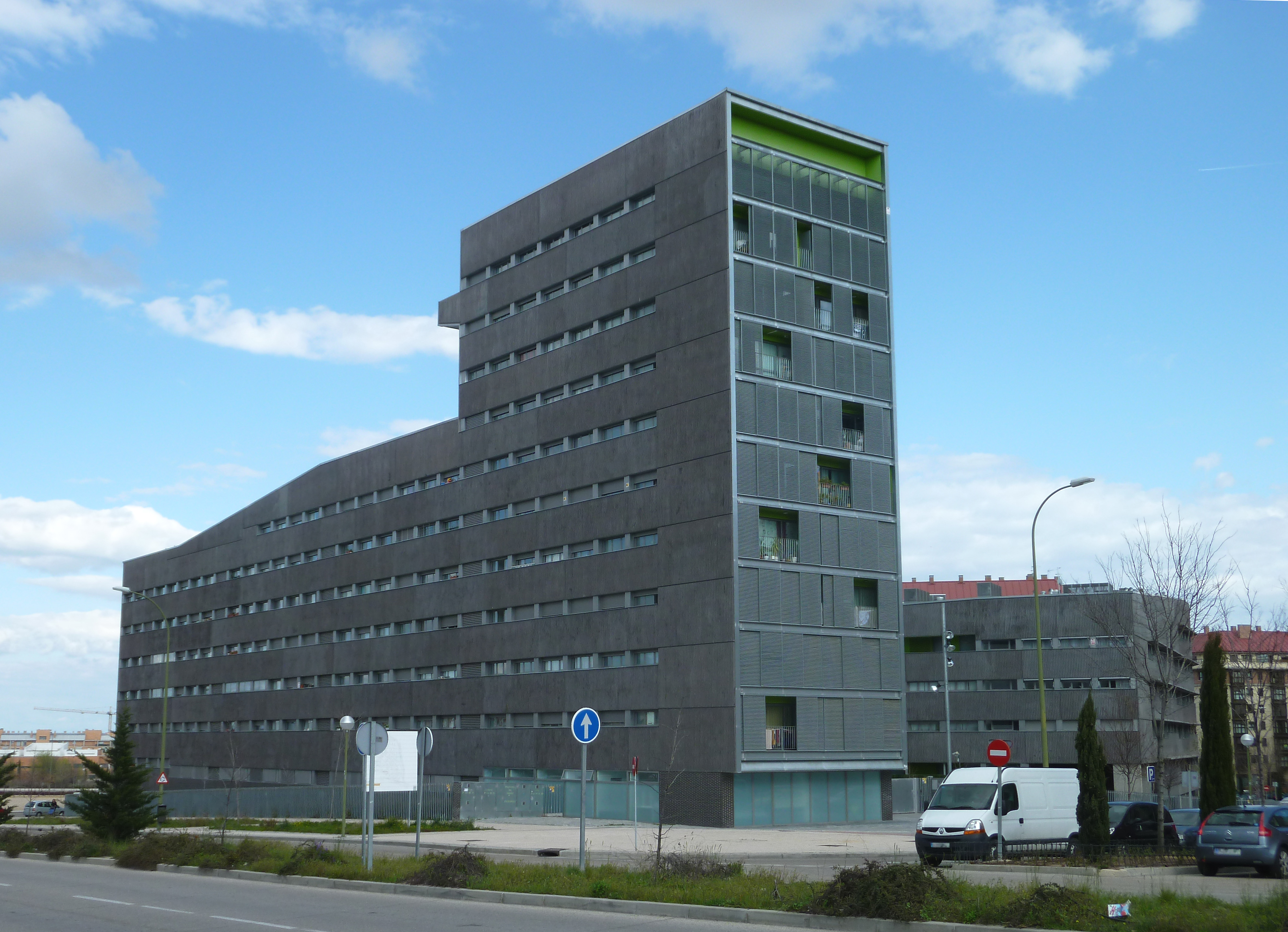 View of Sanchinarro XII building in Madrid (Spain) from the west angle.